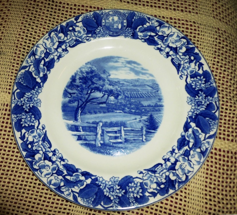 I took this photo of a plate showing a scene from the Gaspereau Valley which was given to me some years ago